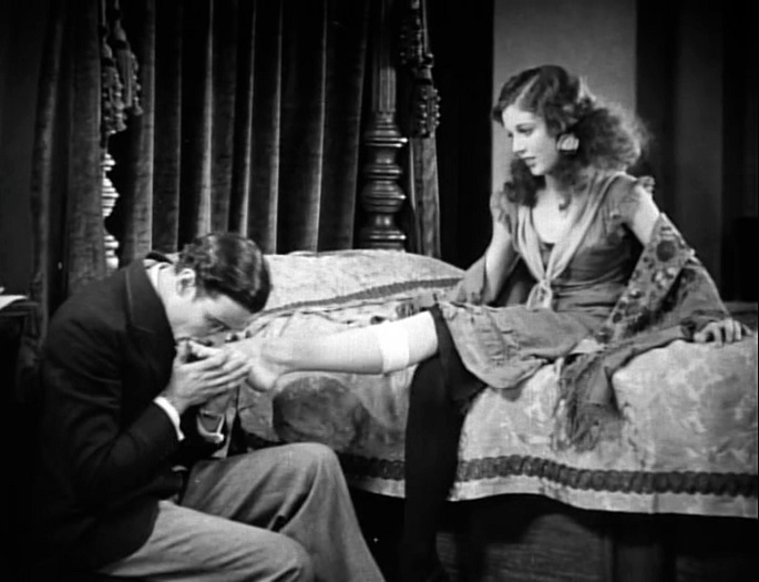 Loretta Young and Nils Asther in a scene from the movie, Laugh, Clown, Laugh (1928).